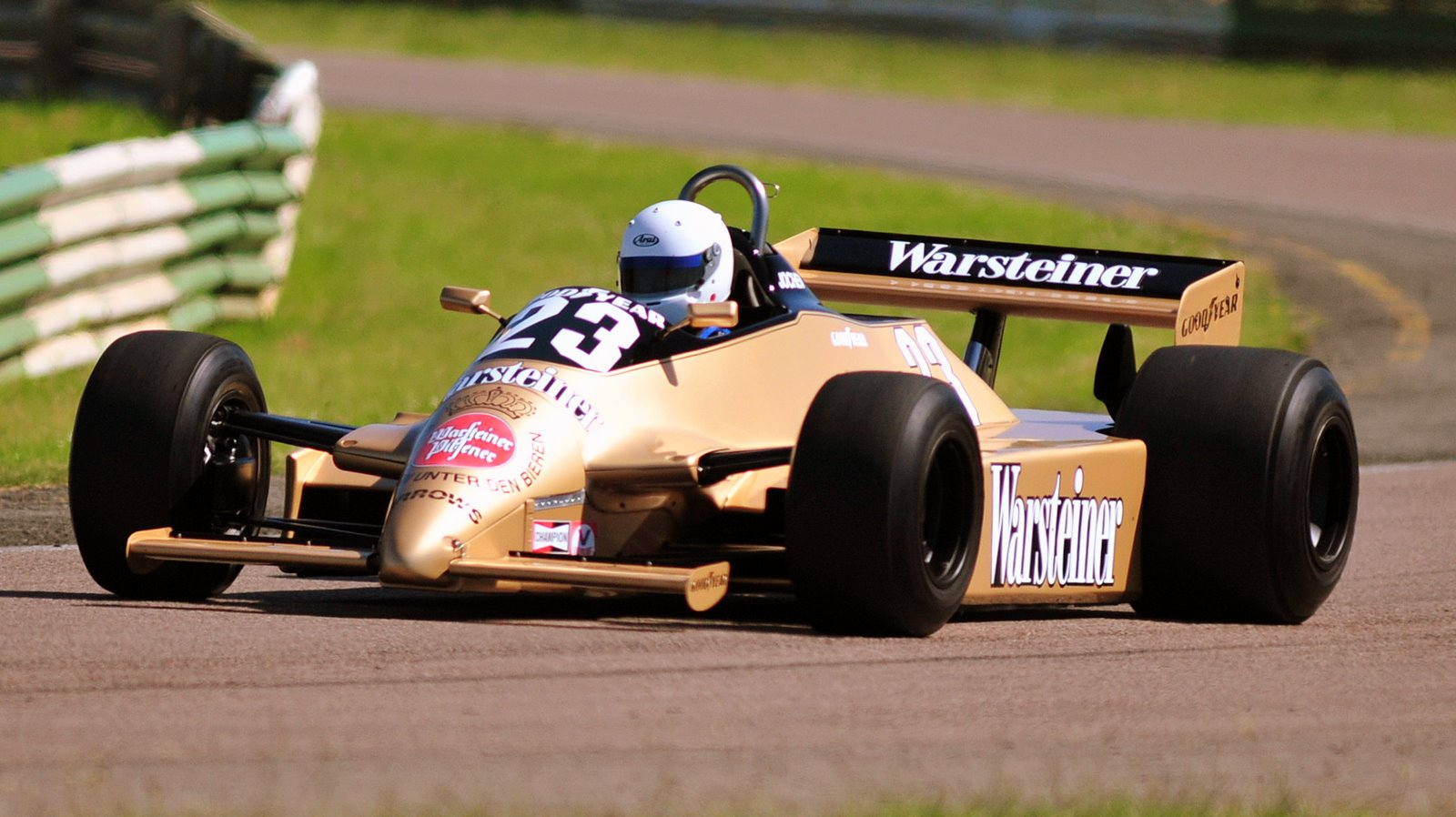 An Arrows A3 Formula One car, being tested at Mallory Park, June 2009.